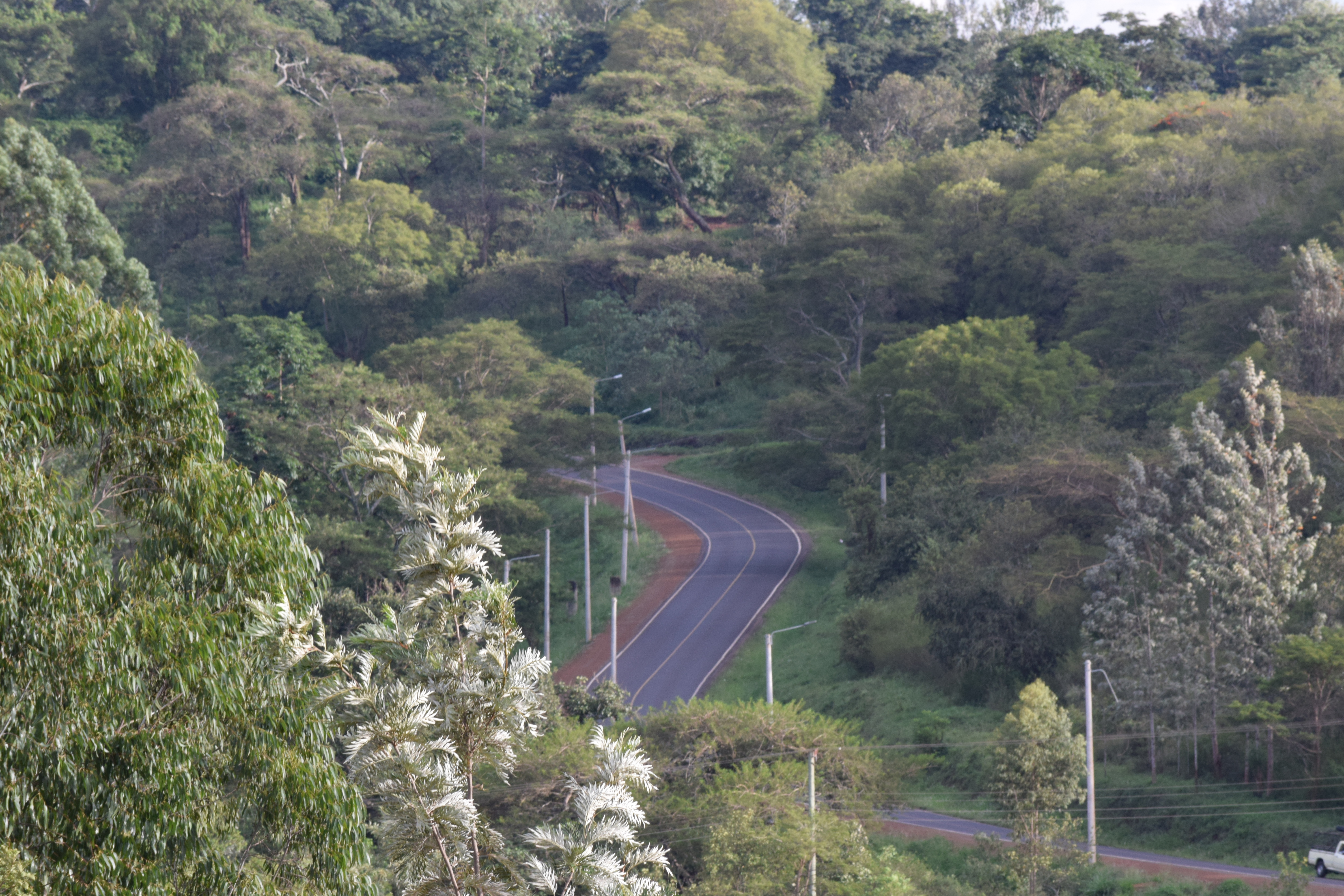 This is an image with the theme "Africa on the Move or Transport" from: Kenya